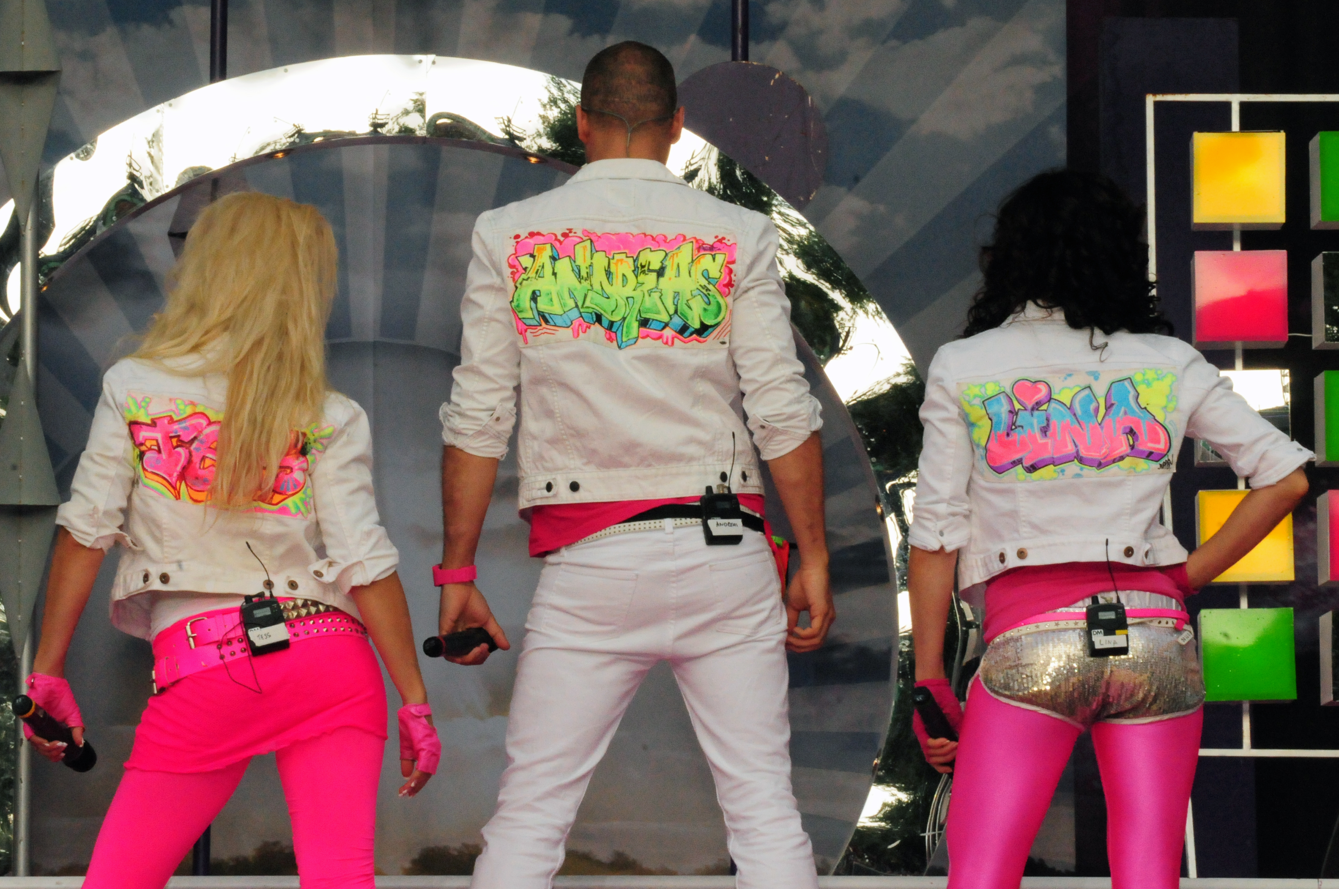 Alcazar at Rix FM Festival